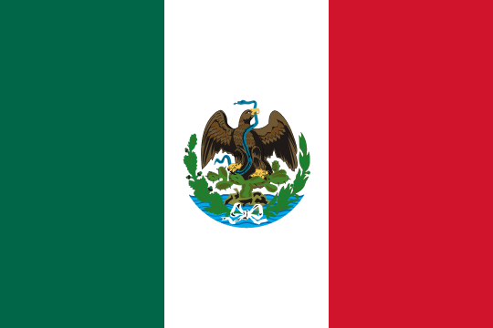 Flag of Mexico from 1881 to 1899